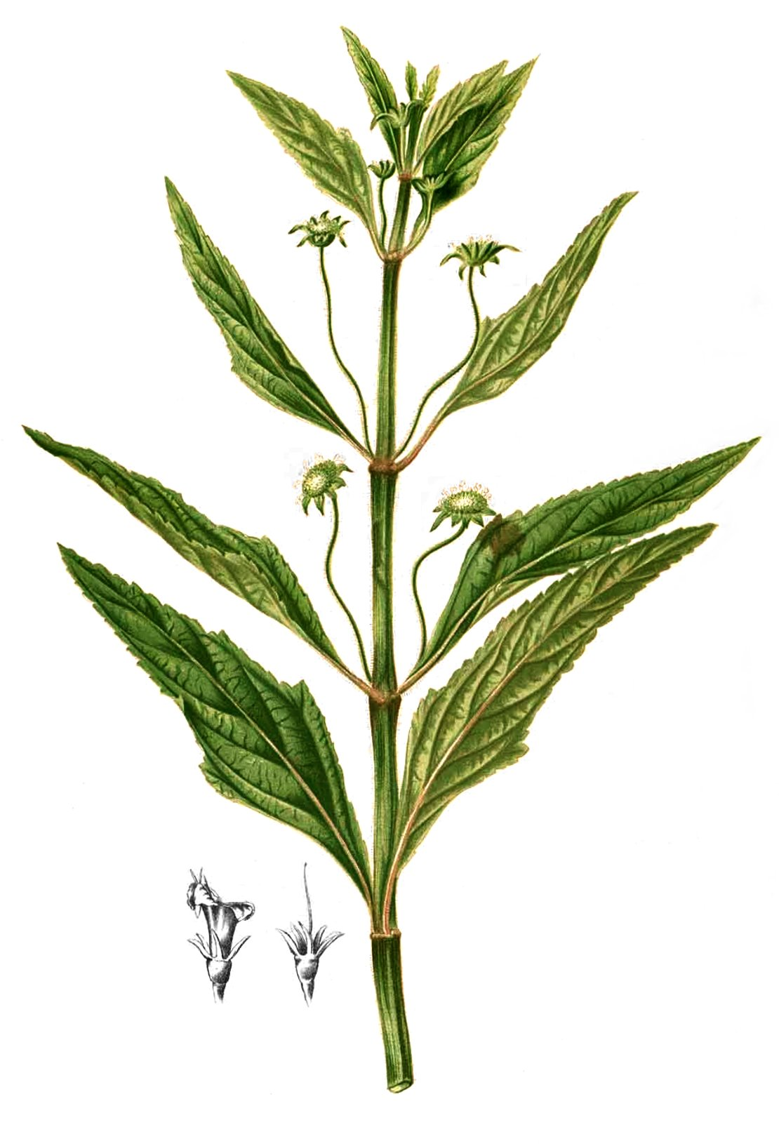 Plate from book